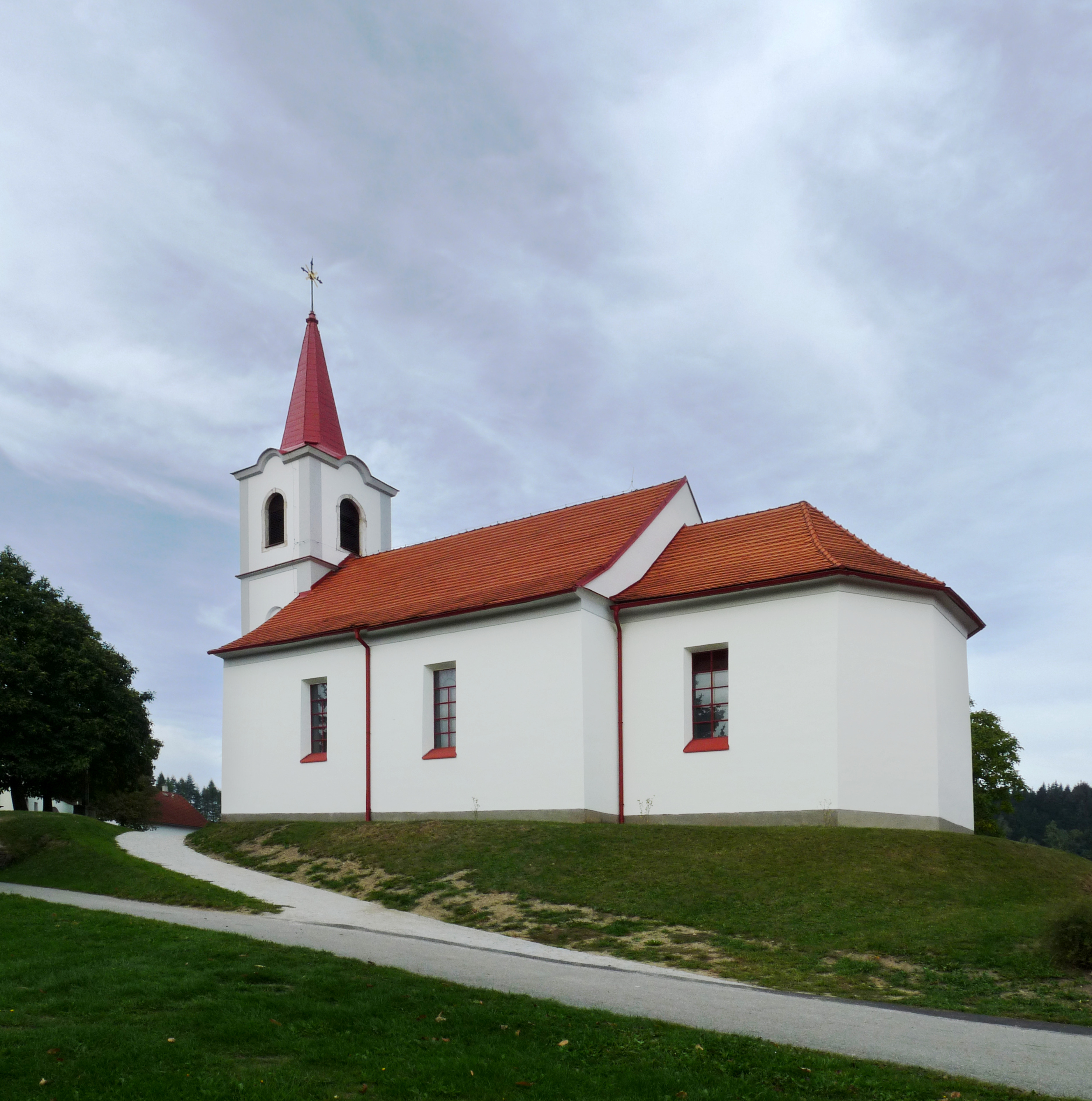 Church of Saint Anne in the village of Věžovatá Pláně, Český Krumlov District, South Bohemian Region, Czech Republic.